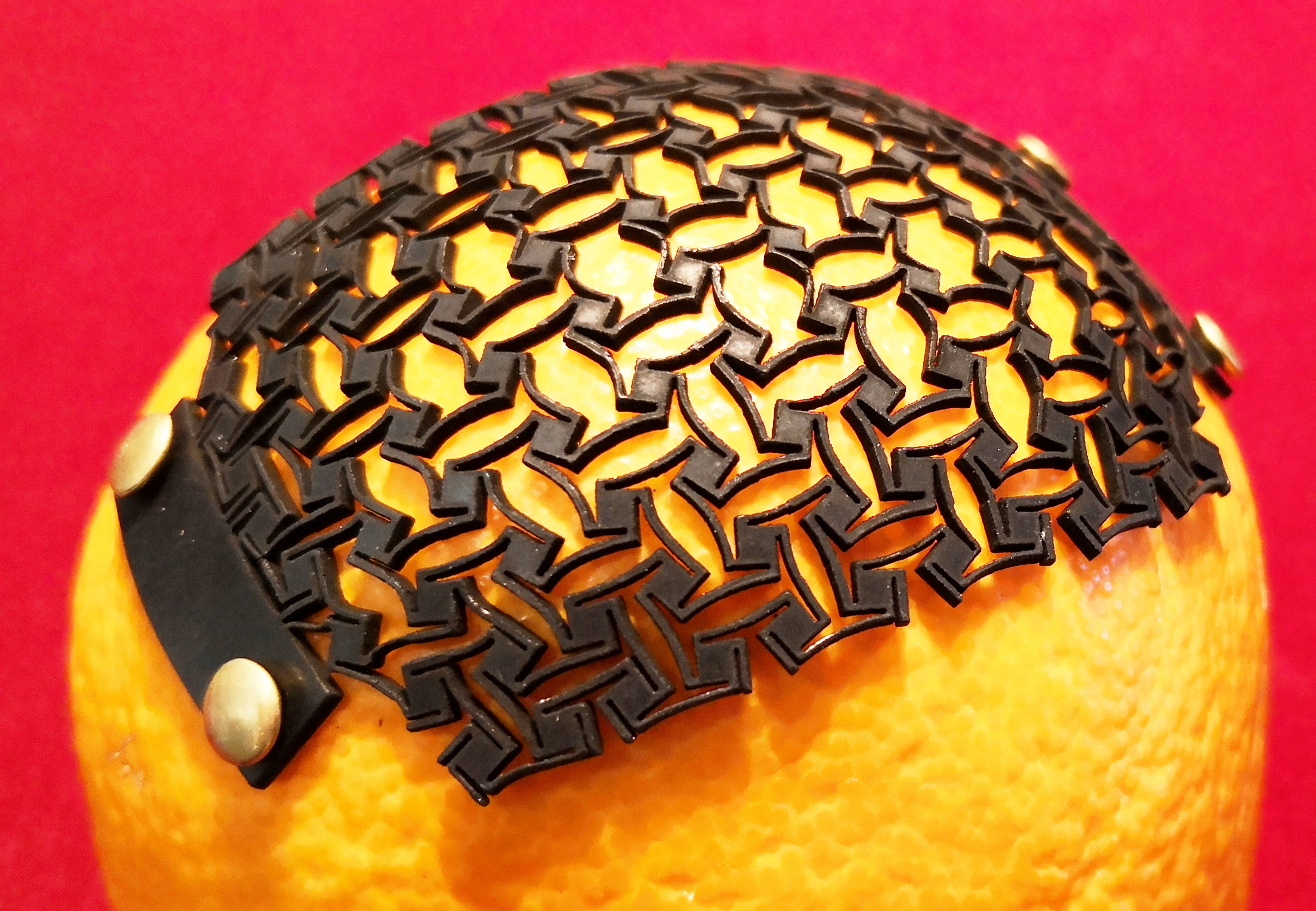 The auxetic metamaterial is a plane structure with peculiar properties. Having a negative poissons ratio grants the ability to cover a spherical surface. The specific properties are described in: Mizzi, L., Salvati, E., Spaggiari, A., Tan, J.-C., Korsunsky, A.M. 55846631500;56735691200;36159769200;35779263900;7004006328; Highly stretchable two-dimensional auxetic metamaterial sheets fabricated via direct-laser cutting. (2020) International Journal of Mechanical Sciences, 167, art. no. 105242, .